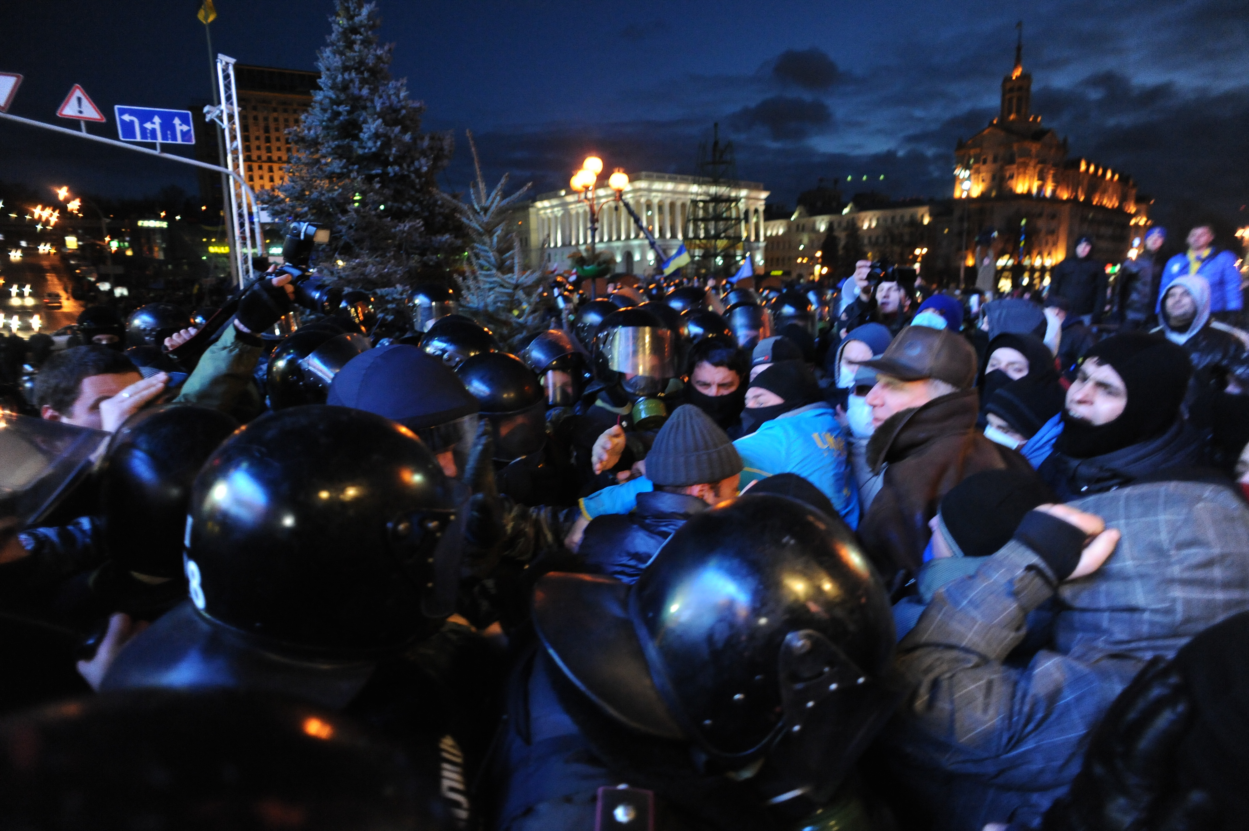 Ukrianian crisis, Ukraine news, Euromaidan, Kiev. Ukraine. Documentary photography. Mstyslav Chernov. Unframe.